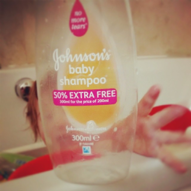 Baby reaching for the empty bottle of Johnson's Baby "No More Tears" shampoo while bathing